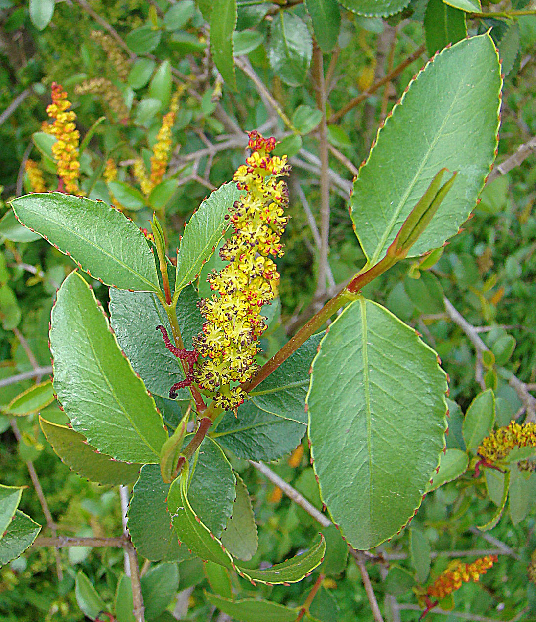 Known in Chile as Coliguay. In context at